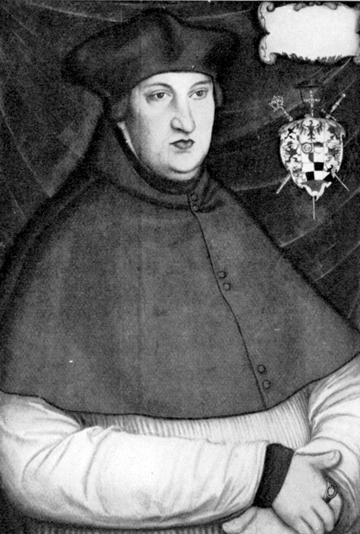 'Portrait of Cardinal Albrecht of Brandenburg, Archbishop of Mainz', by Lucas Cranach the Elder, ca. 1520-1525. The painting was destroyed or disappeared in Berlin in May 1945, in the Friedrichshain flak tower fire. - Dimensions: 83 x 57 cm